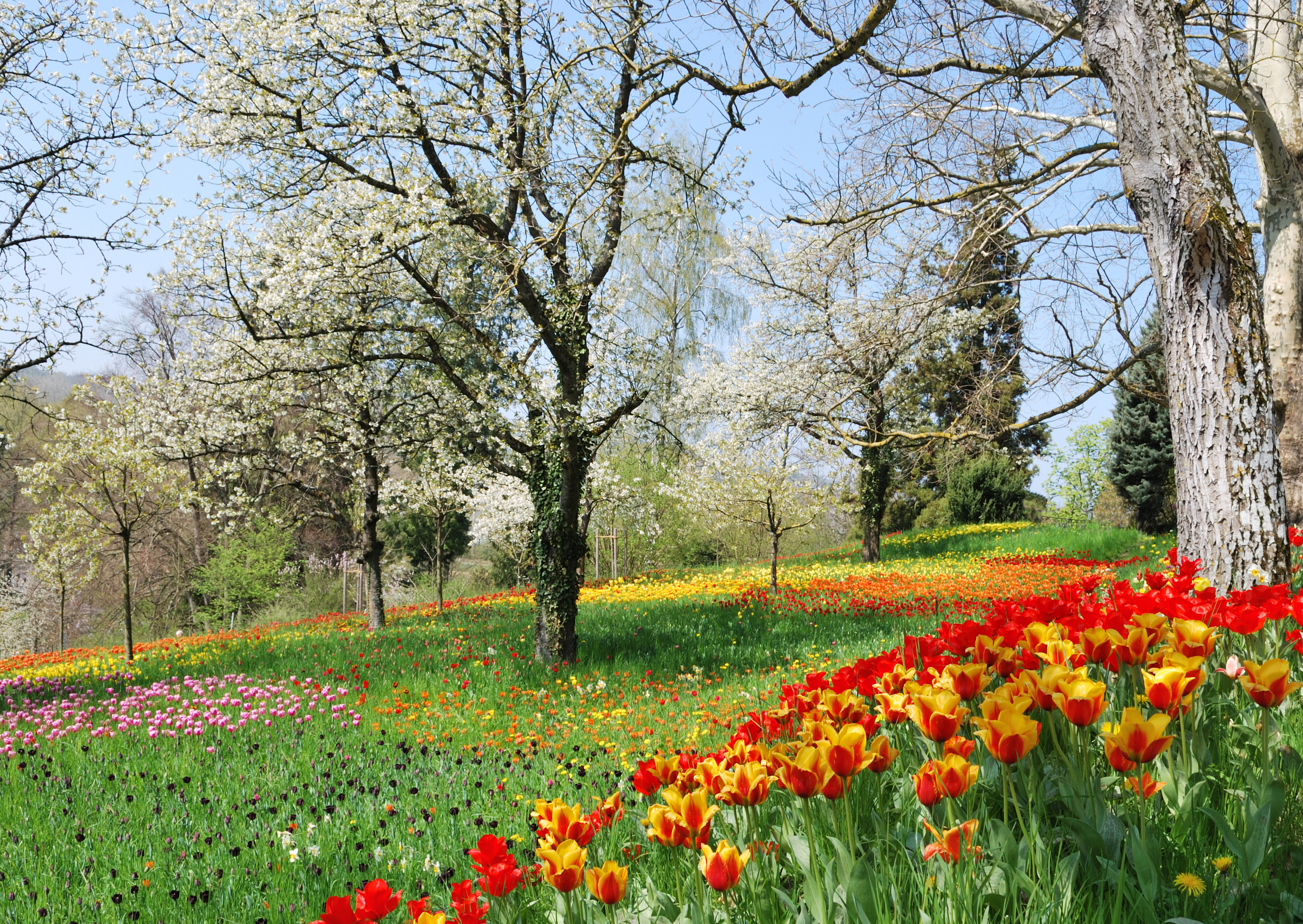 The Spring path at the island of Mainau during the tulip blooming.